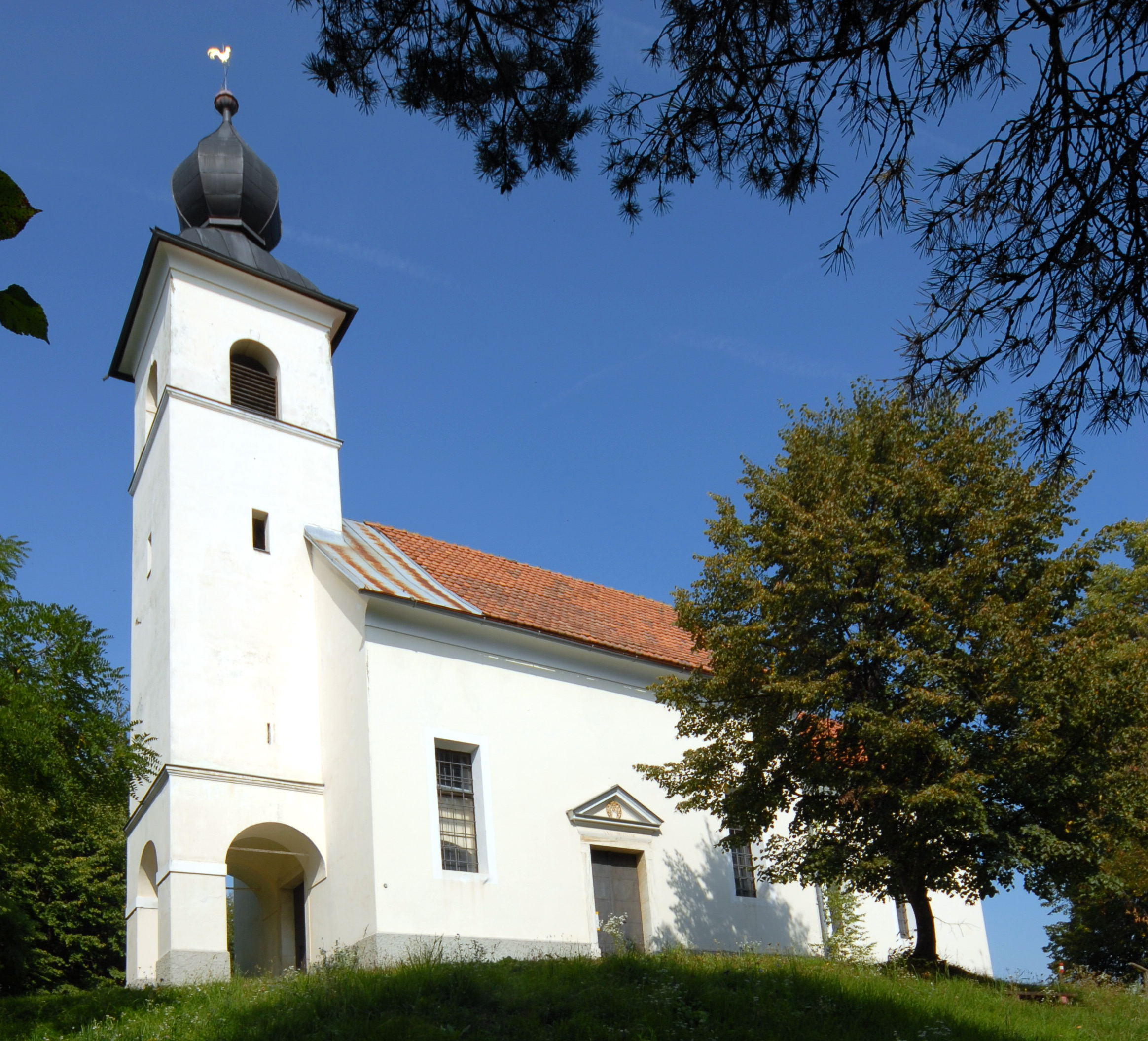 Pilgrimage church Maria Sieben Schmerzen at Freudenberg, municipality Moosburg, district Klagenfurt Land, Carinthia, Austria